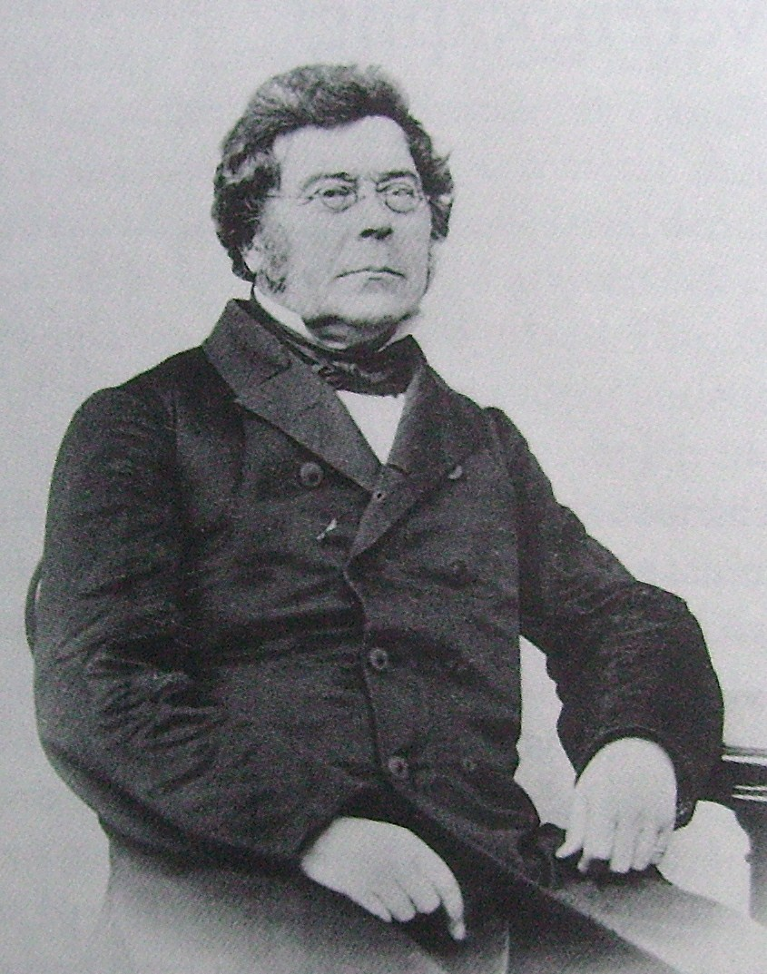 Picture of Gabriel Rein, Finnish scholar